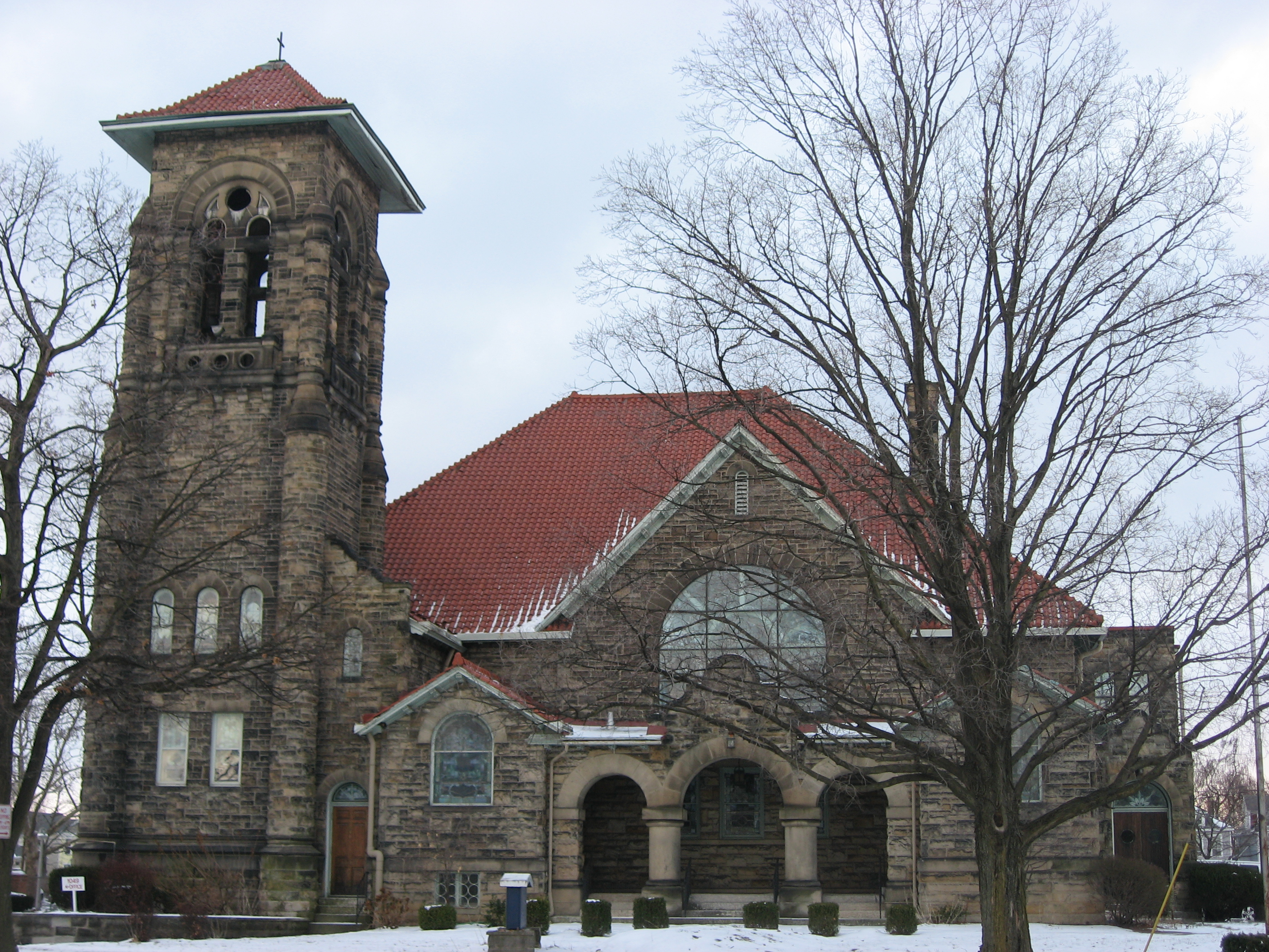 Front of the former Broad Street Christian Church, located at 1051 E. Broad Street (U.S. Route 40) in Columbus, Ohio, United States. Built in 1907 and now home to a parish of the Ethiopian Orthodox Tewahedo Church, it is listed on the National Register of Historic Places.